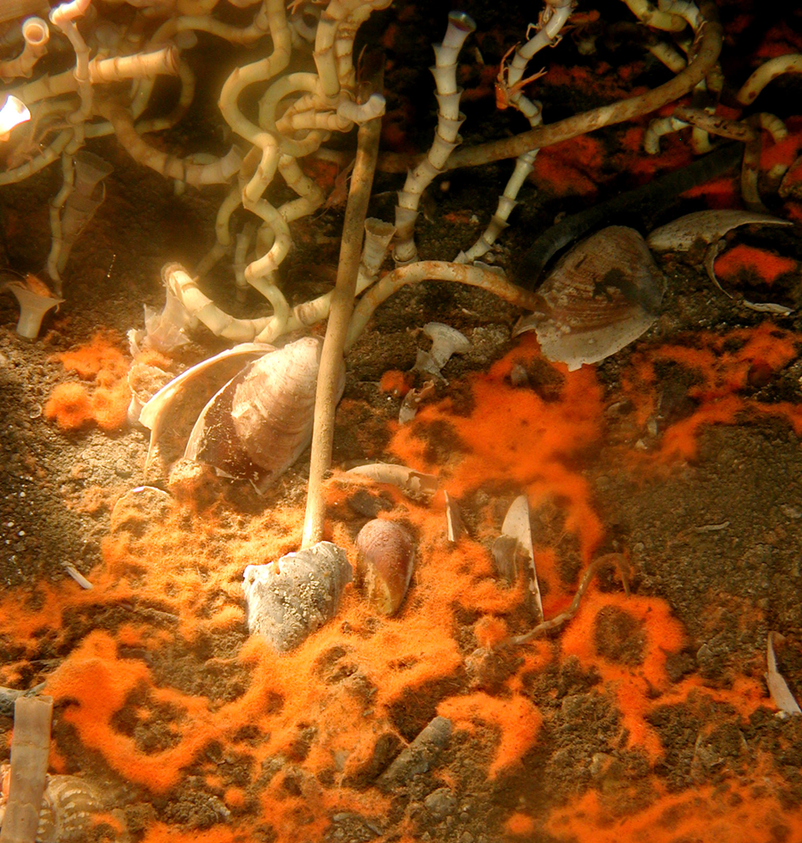 An aggregation of Lamellibrachia luymesi in the Gulf of Mexico.